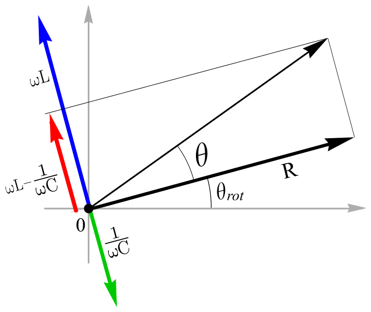 An RCL-circuit diagram